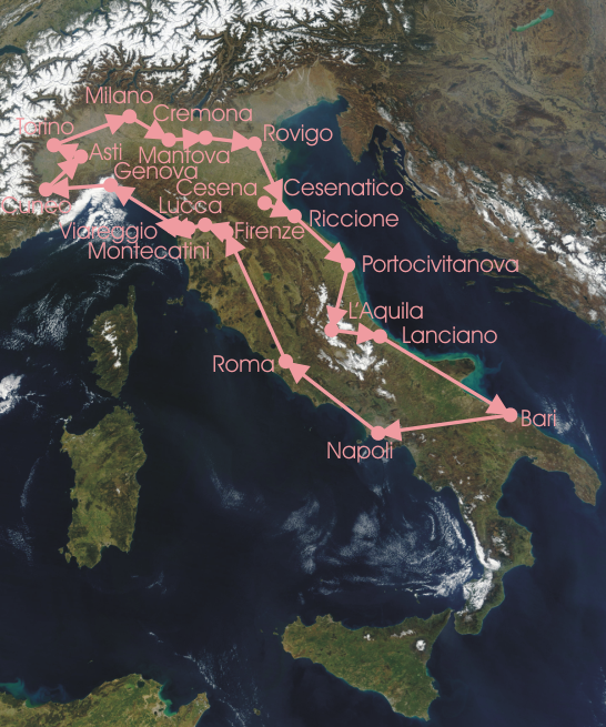 Map of Italy highlighting the stages of 1935 Giro d'Italia